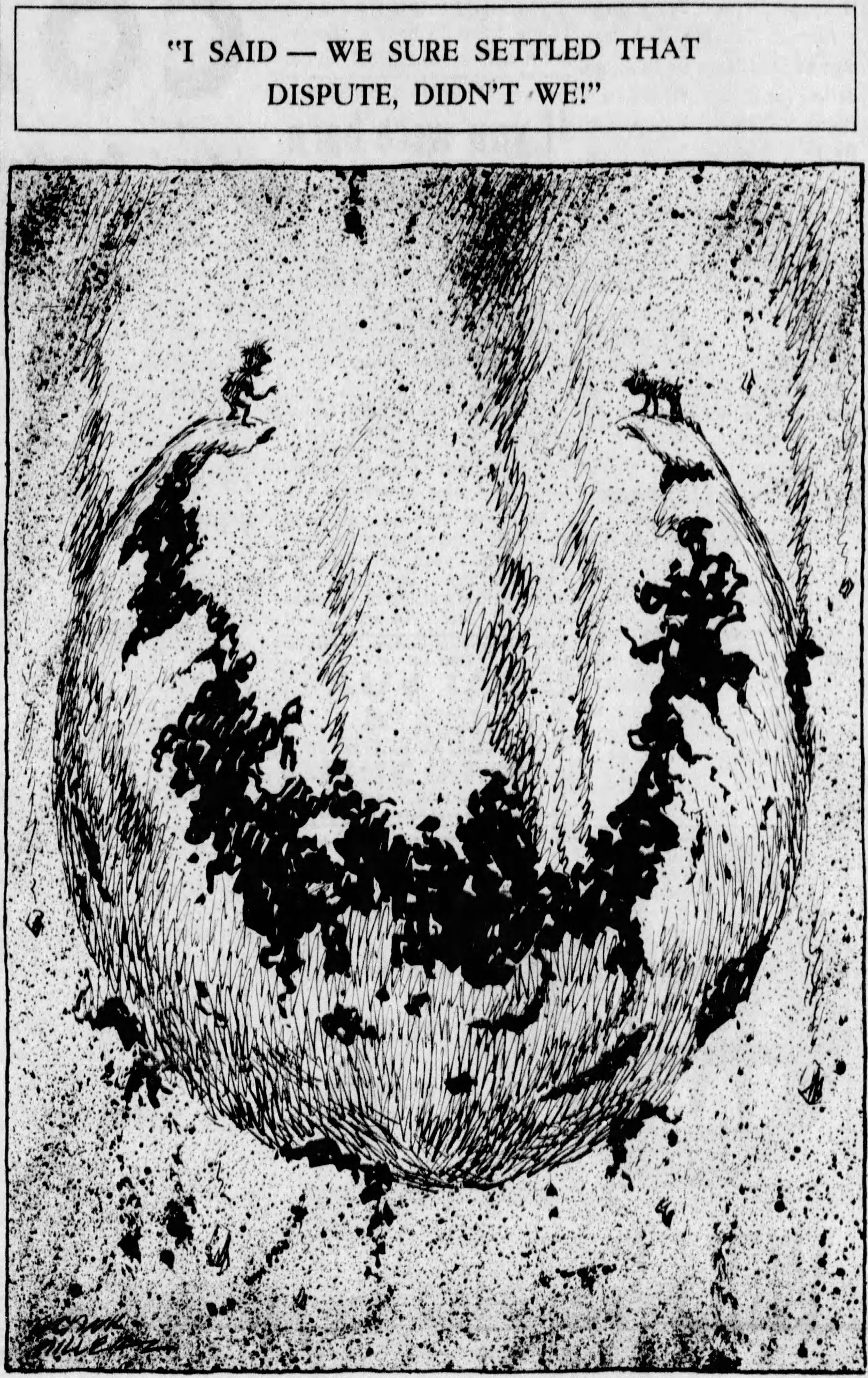 "I said—We sure settled that dispute, didn't we!", an editorial cartoon commenting on the dangers of nuclear warfare. Winner of the 1963 Pulitzer Prize for Editorial Cartooning.